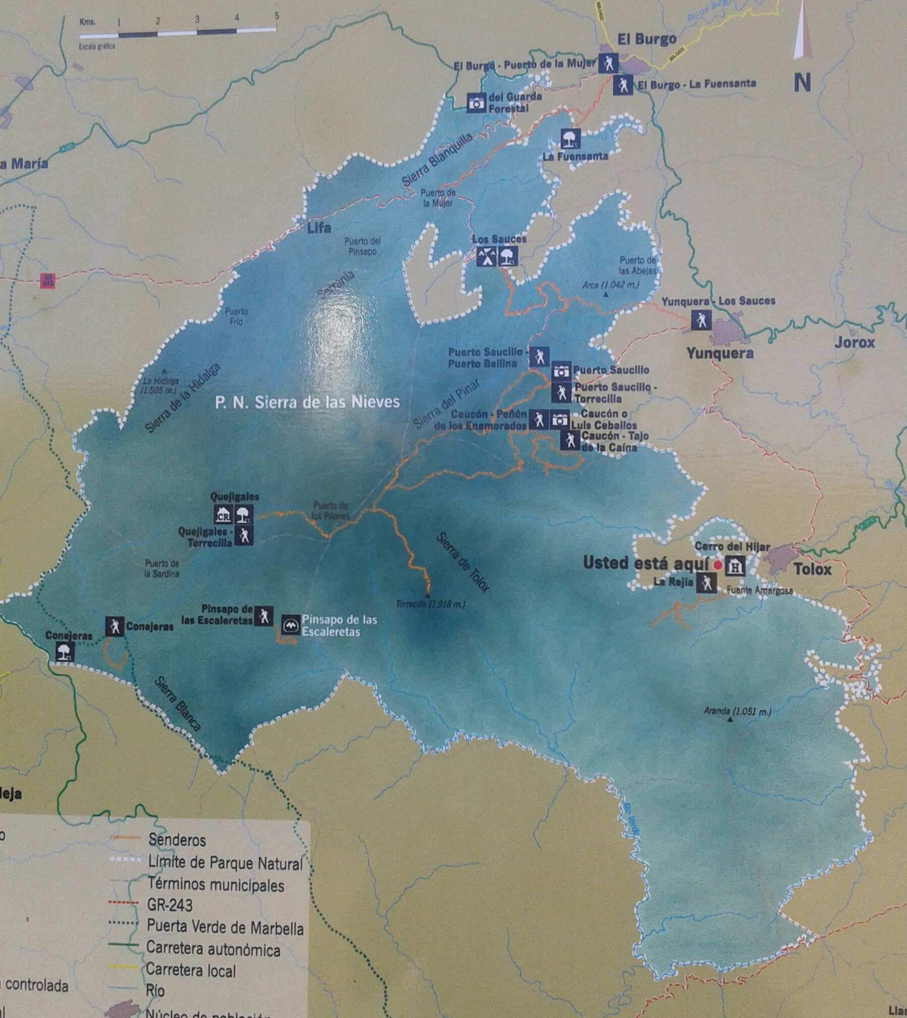 Official Map of Natural Park of Sierra de las Nieves, in the province of Málaga, very near the town of Tolox.